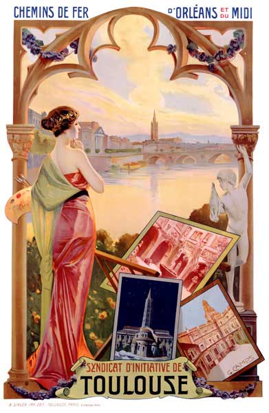 Advertising poster of the Chemin de fer d'Orléans et du Midi: Toulouse.